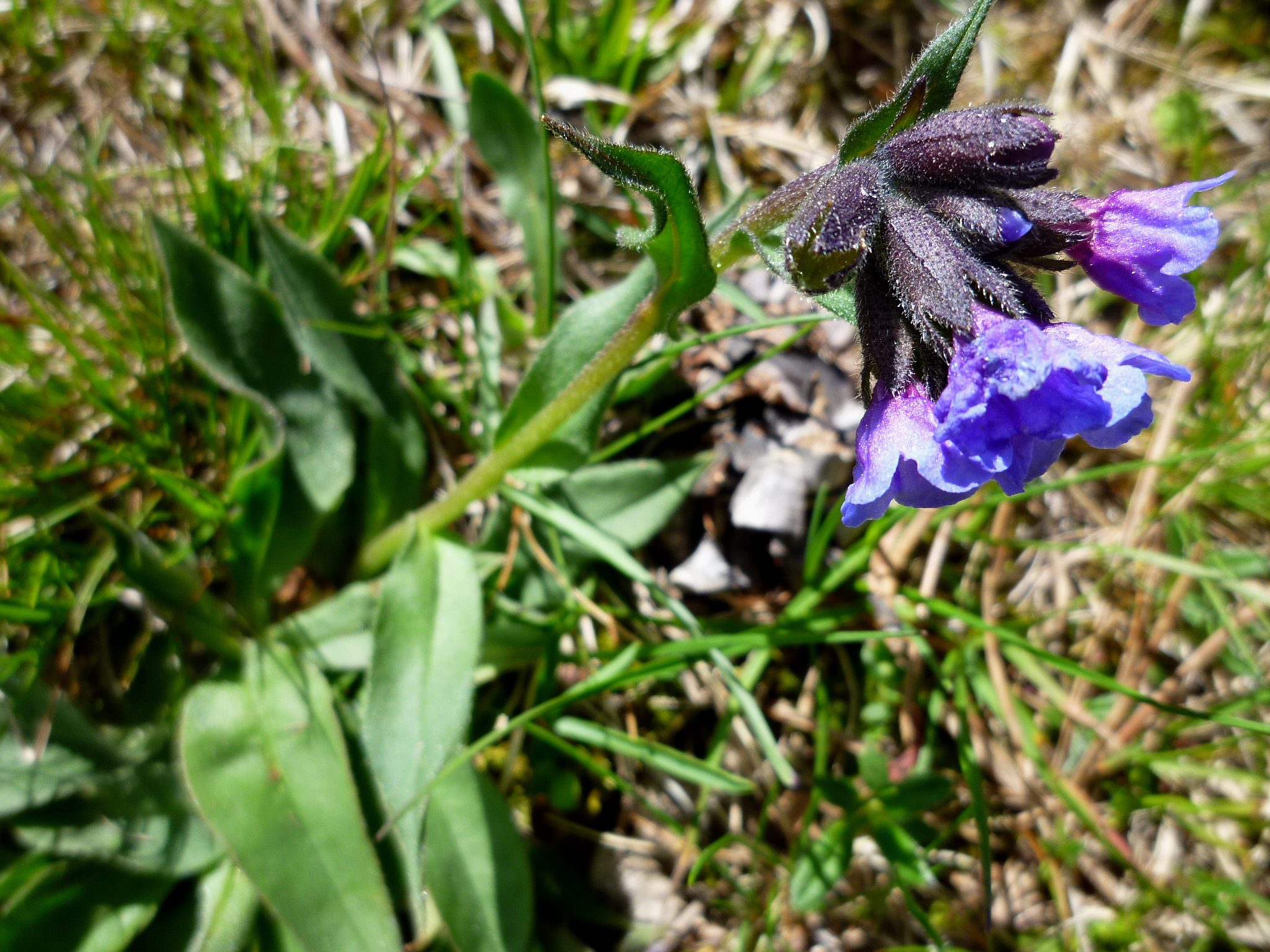 Pulmonaria longifolia. In Fígols (Berguedà-Catalunya). To 1.670 m. altitude